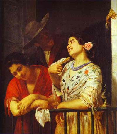 Mary Cassatt's painting "On the Balcony"